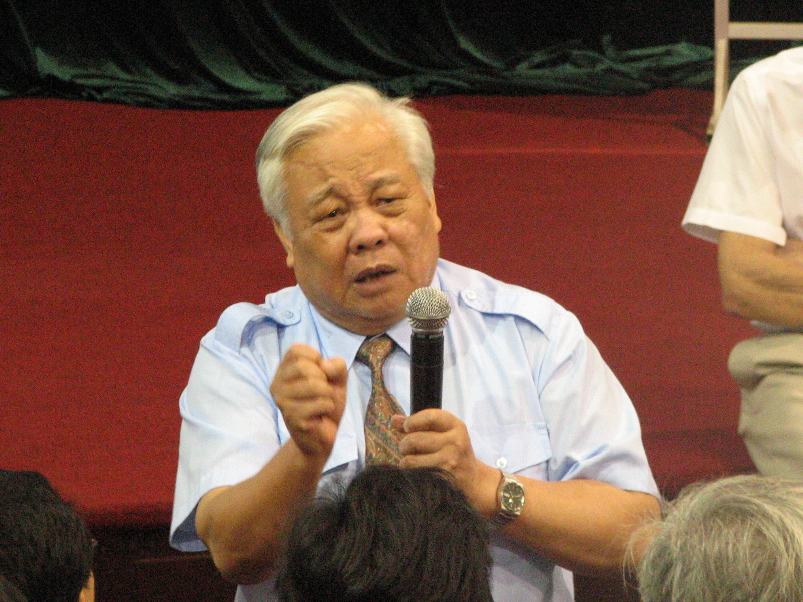 Nguyen Van Hieu, a theoretical physicist from VietnamTiếng Việt: Giáo sư Nguyễn Văn Hiệu, nguyên Chủ tịch Viện Khoa học và Công nghệ Việt Nam đang giảng bài tại Đại học Quốc gia Hà Nội, ngày 4 tháng 8 năm 2006. Hình do người truyền lên chụp. Thể loại:Nhà Vật lý Việt Nam